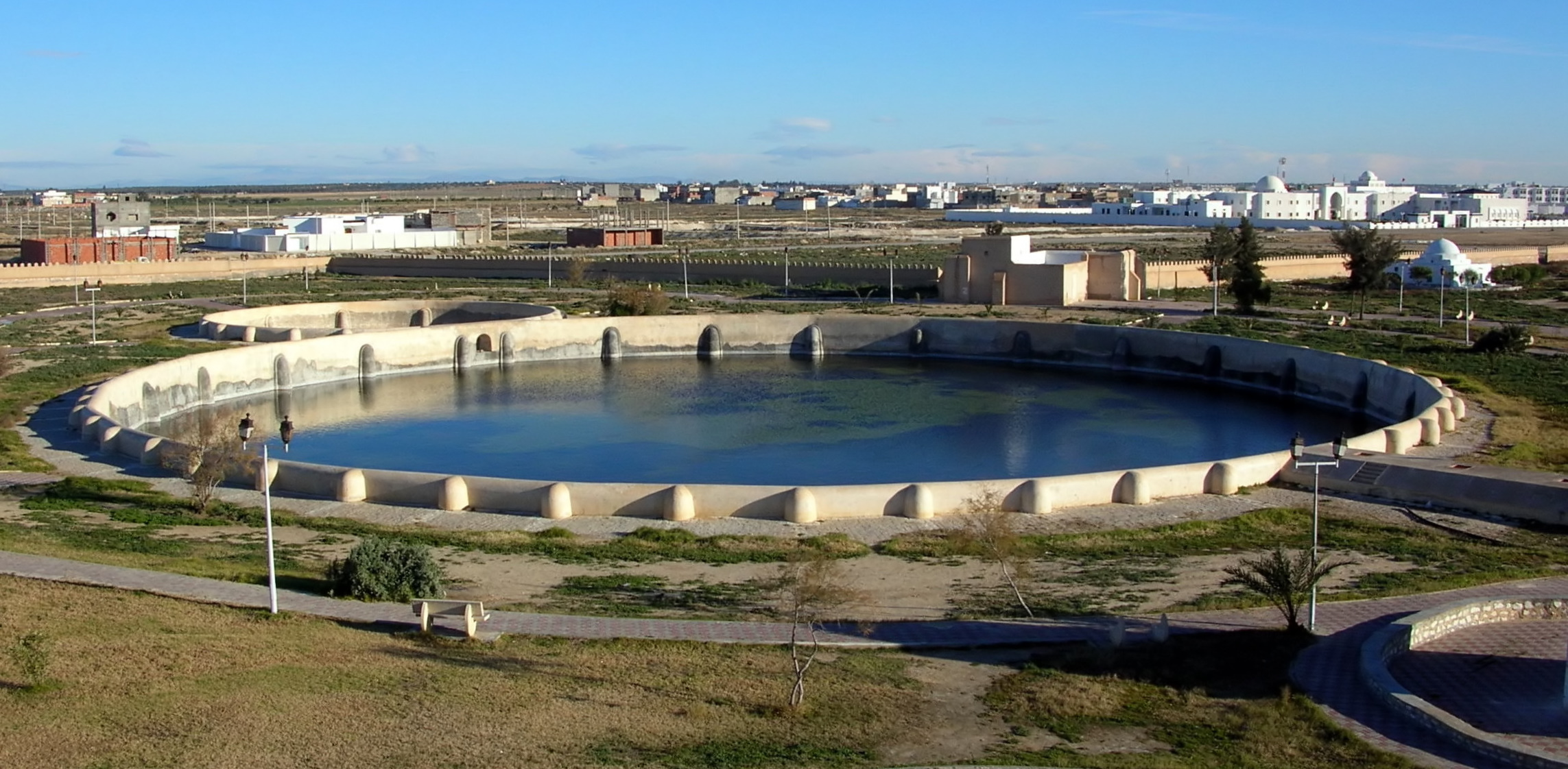 Smallest of the two Aghlabid cisterns, Kairouan, Tunisia